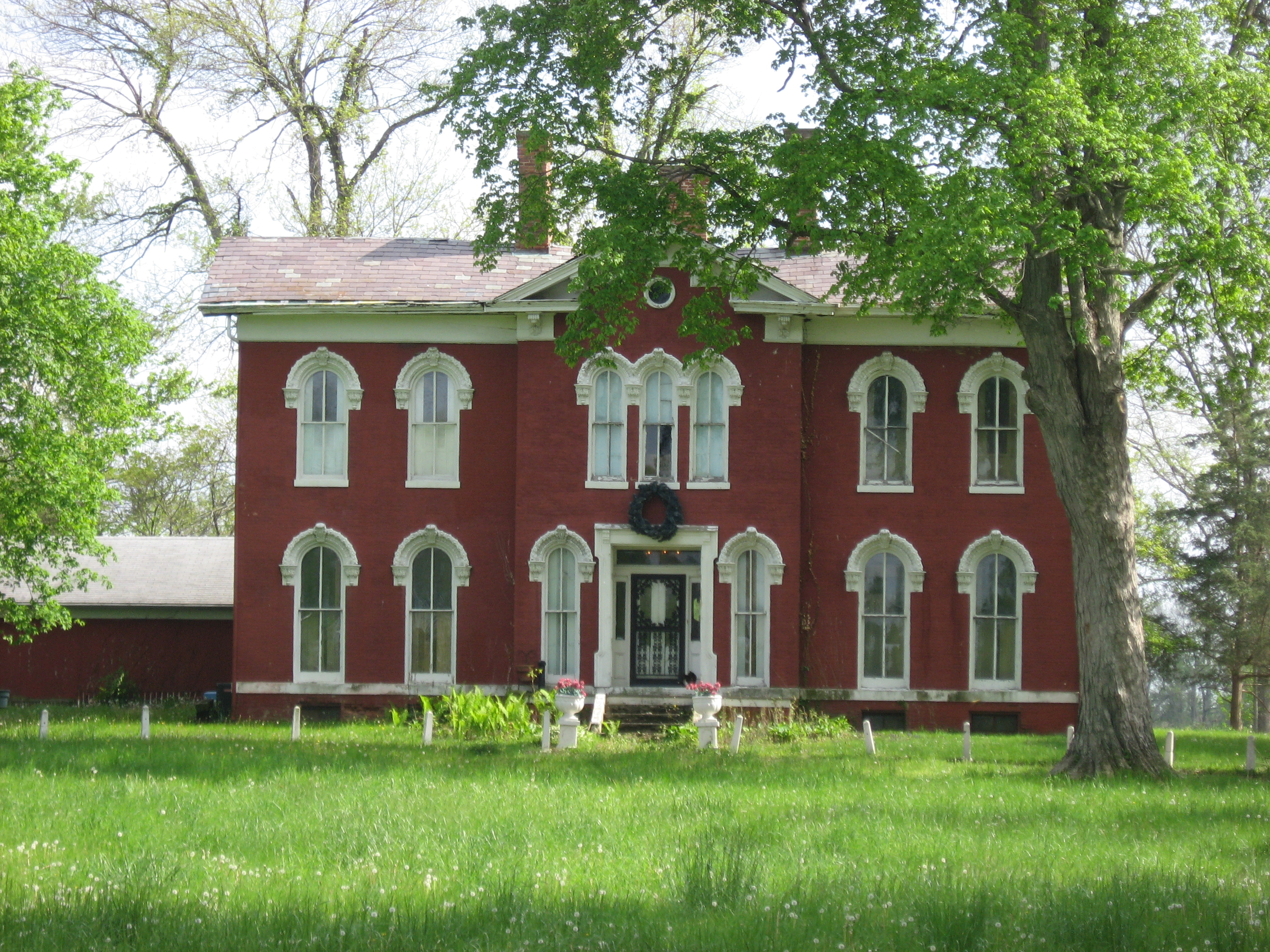 Front of the farmhouse at the Joel Jessup Farm, located on the southern side of County Road 800S at its intersection with County Road 1050E near Friendswood in Guilford Township, Hendricks County, Indiana, United States. Built in 1864, it is listed on the National Register of Historic Places.